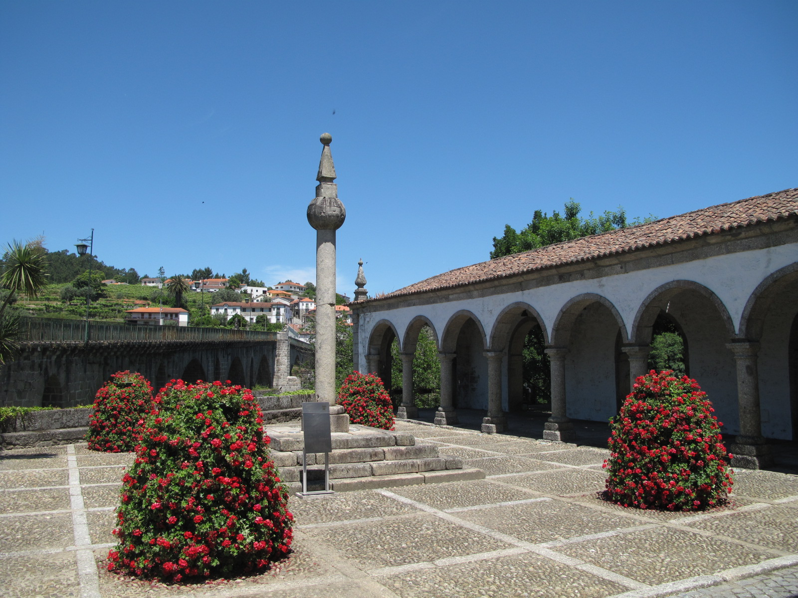 This file was uploaded for Wiki Loves Monuments in Portugal with the unique identifier 70600.